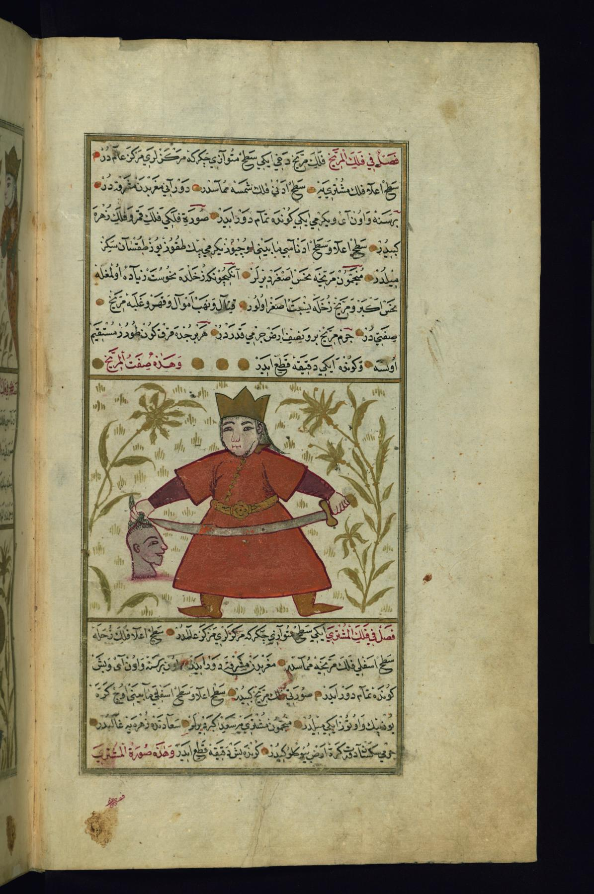 This illustration from Walters manuscript W.659 depicts the symbol of Mars (al-mirrikh).